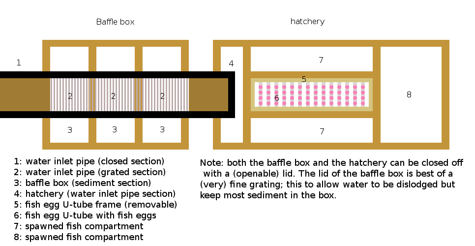 A schematic of a small scale fish hatchery, together with a baffle box. This setup could be very useful to repopulate a river with (certain) remaining fish species in that river (ie after loss of fish due to environmentally damaging industrial activities). The fish spawned in the hatchery would need to be placed in the river as fast as possible (due to the little space, they would otherwise die quickly). The schematic was made based on a schematic seen in episode 3 of "Edwardian Farm" , and after studying , (Recirculating Trout Farm Design) The boxes are made of wood, and are made waterproof by means of pitch (pine resin). The water coming in would need have been well aerated first (ie by waterfalls). Also the boxes would typically above the water (they shouldn't be submerged, ...); instead they are simply placed between a river (watersource) and a lake, ...